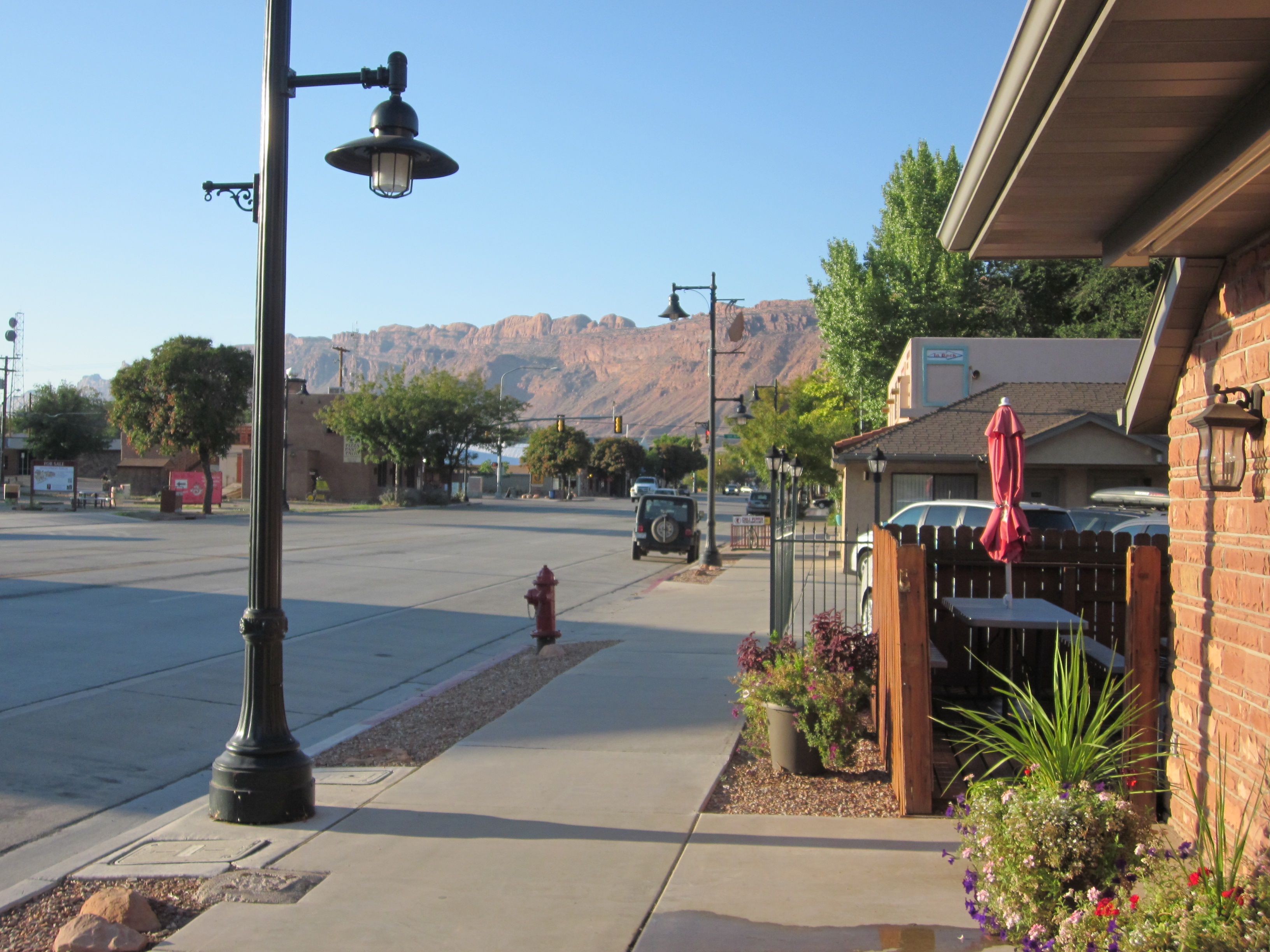 Image of Main Street, looking south toward Canyonlands National Park, in Moab, Utah